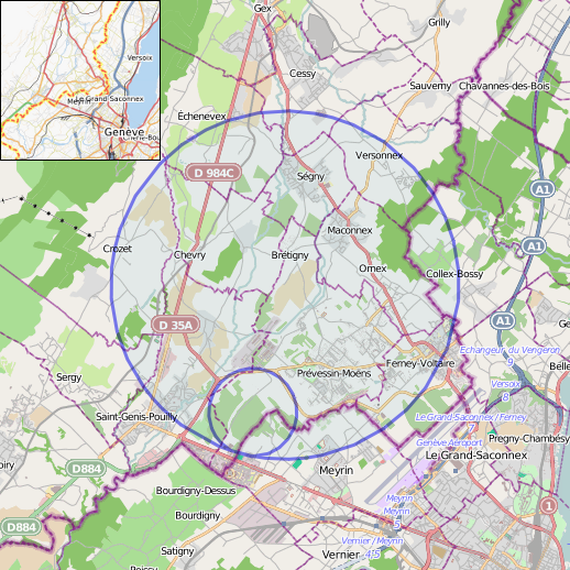 Location map of Large Hadron Collider (way #310046324) and Super Proton Synchrotron (way #66473762; blue circles) This map of Geneva was created from OpenStreetMap project data, collected by the community. This map may be incomplete, and may contain errors. Don't rely solely on it for navigation.